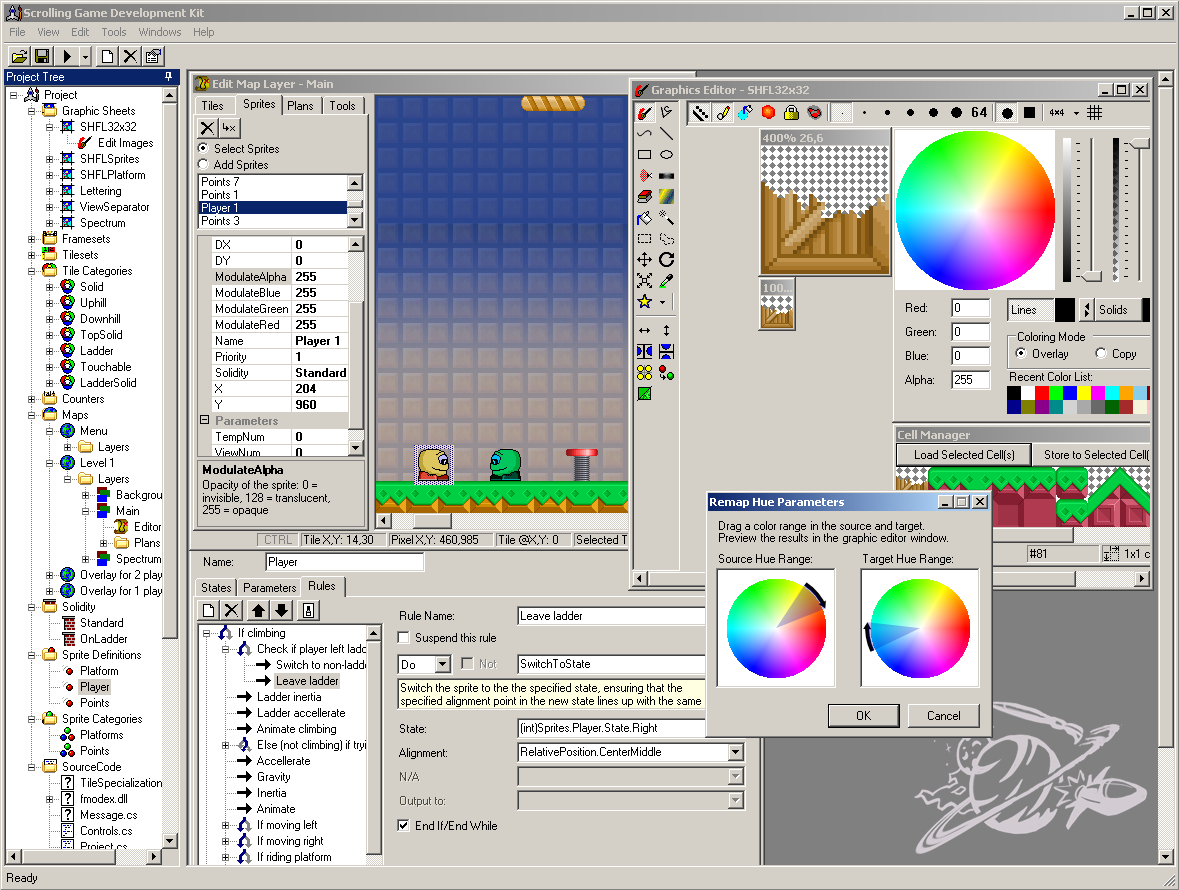 Screenshot of Scrolling Game Development Kit 2.0.0 with map editor, graphics editor and sprite definition editor displayed.